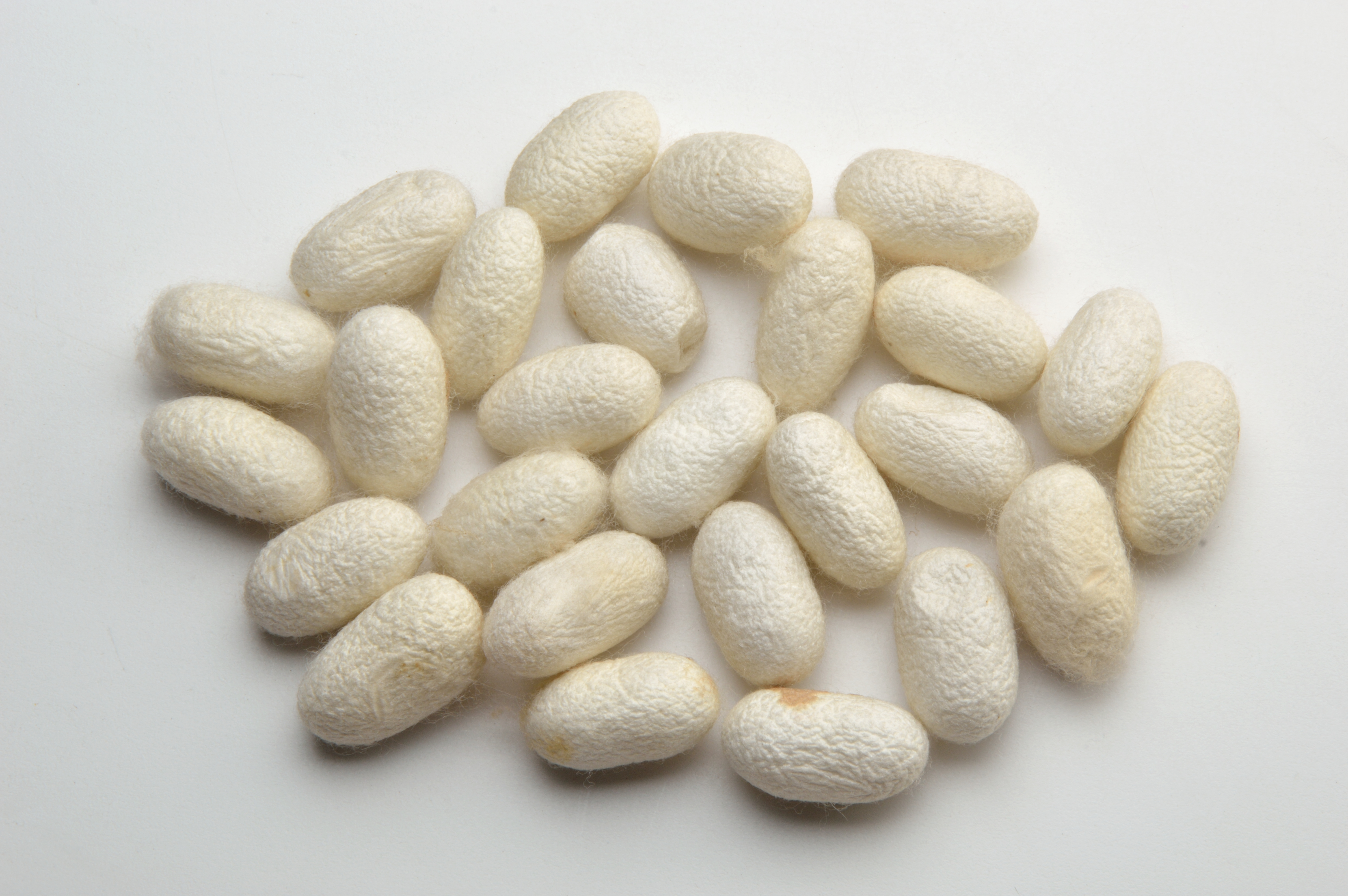 Cocoons collected from different parts of Assam, India.